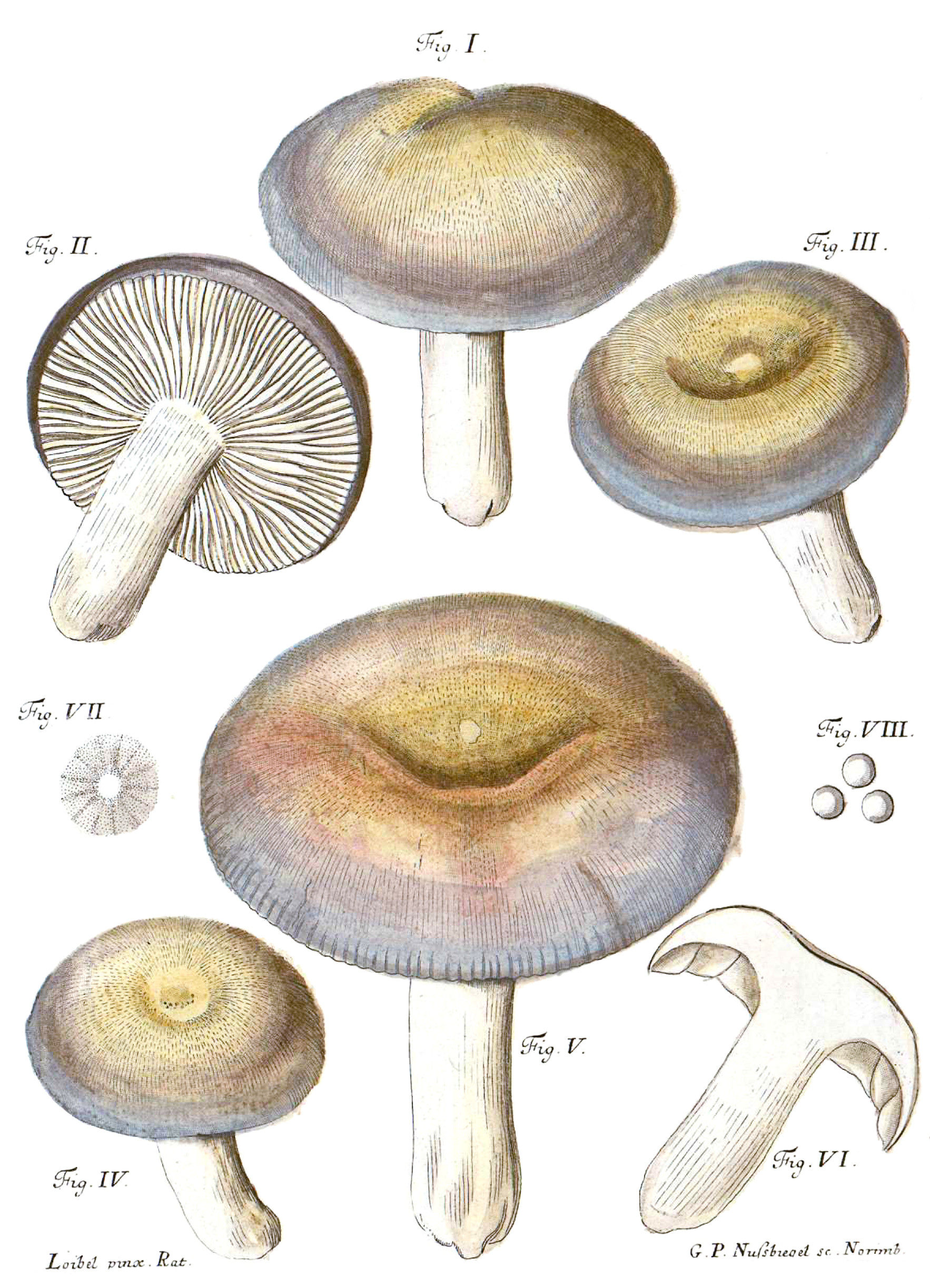 Explanation of the 93rd plate by the author J.C. Schäffer (in German und Latin) The plate shows Agaricus cyanoxanthus Schaeff., Fungorum qui in Bavaria et Palatinatu circa Ratisbonam nascuntur icones, Vol 4: Seite 40 (1774). According to the right scientific name is now Russula cyanoxantha (Schaeff.) Fr.